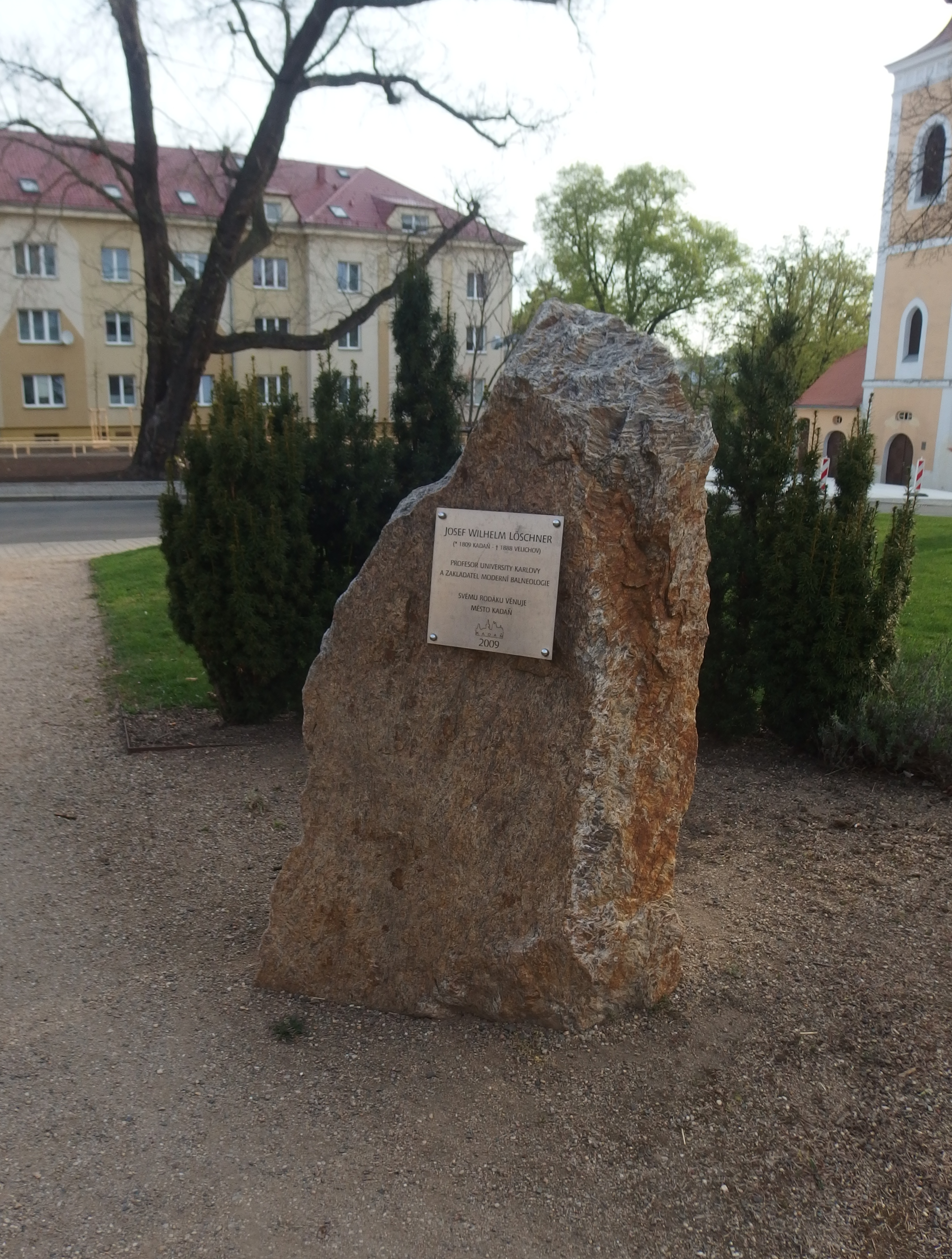 Kadaň, Chomutov District, Czech Republic. Löschnerovo náměstí square.